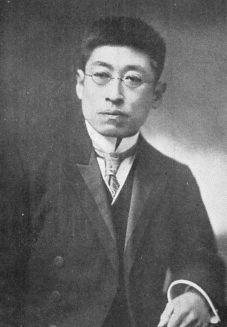 Satomichi Tokugawa